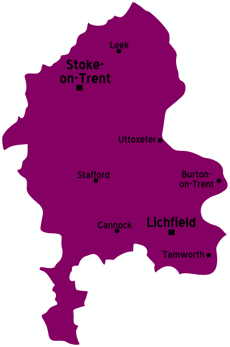 Map of Staffordshire Source: :Image:UK map.svg map: United Kingdom Map of: United Kingdom